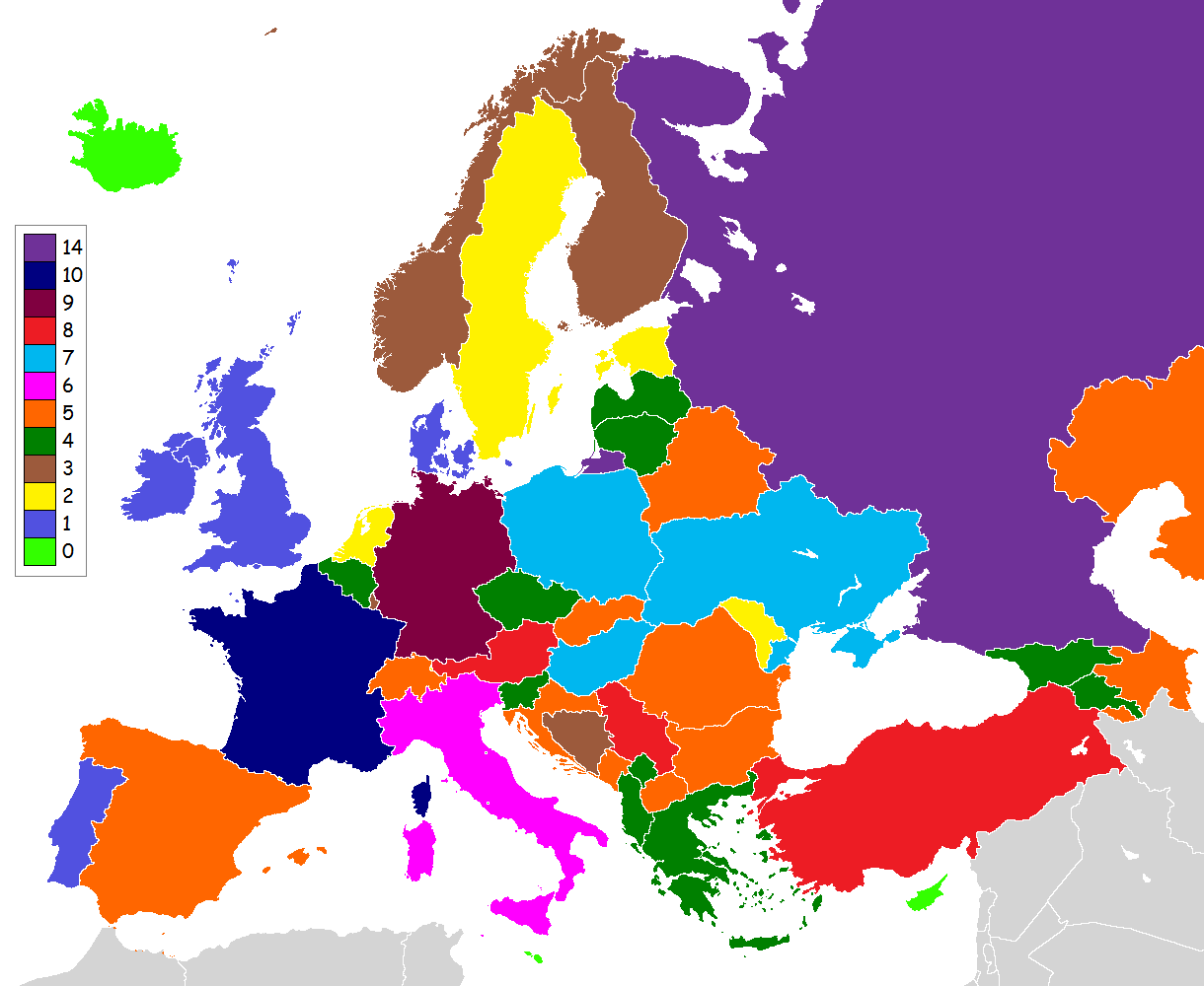 Map of Europe, depicting numbers of neighbouring countries.